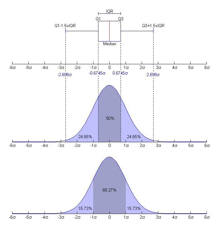 Nishiguchi. Boxplot and a probability density function (pdf) of a Normal N(0,1s2) Population.